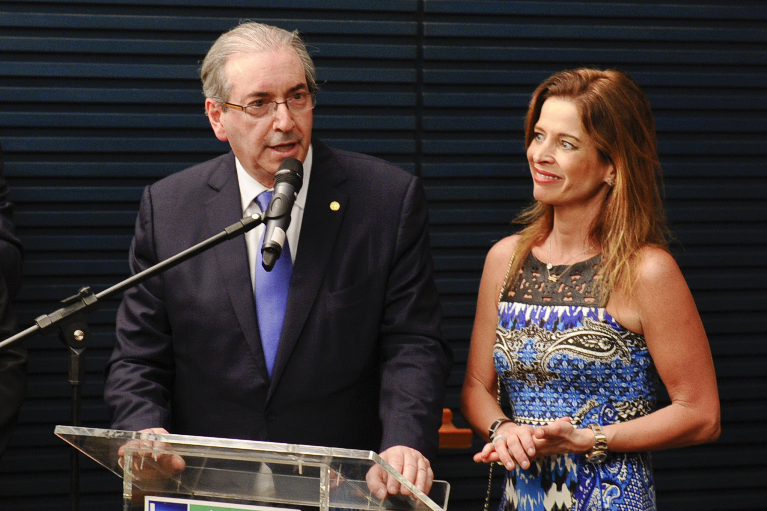 Coquetel de encerramento da reunião do Parlamento Latino-americano (Parlatino) no Salão Nobre da Câmara dos Deputados.Em discurso, presidente da Câmara, Eduardo Cunha (PMDB-RJ) ao lado de sua esposa, a jornalista Cláudia Cruz.Foto: Marcos Oliveira/Agência Senado.